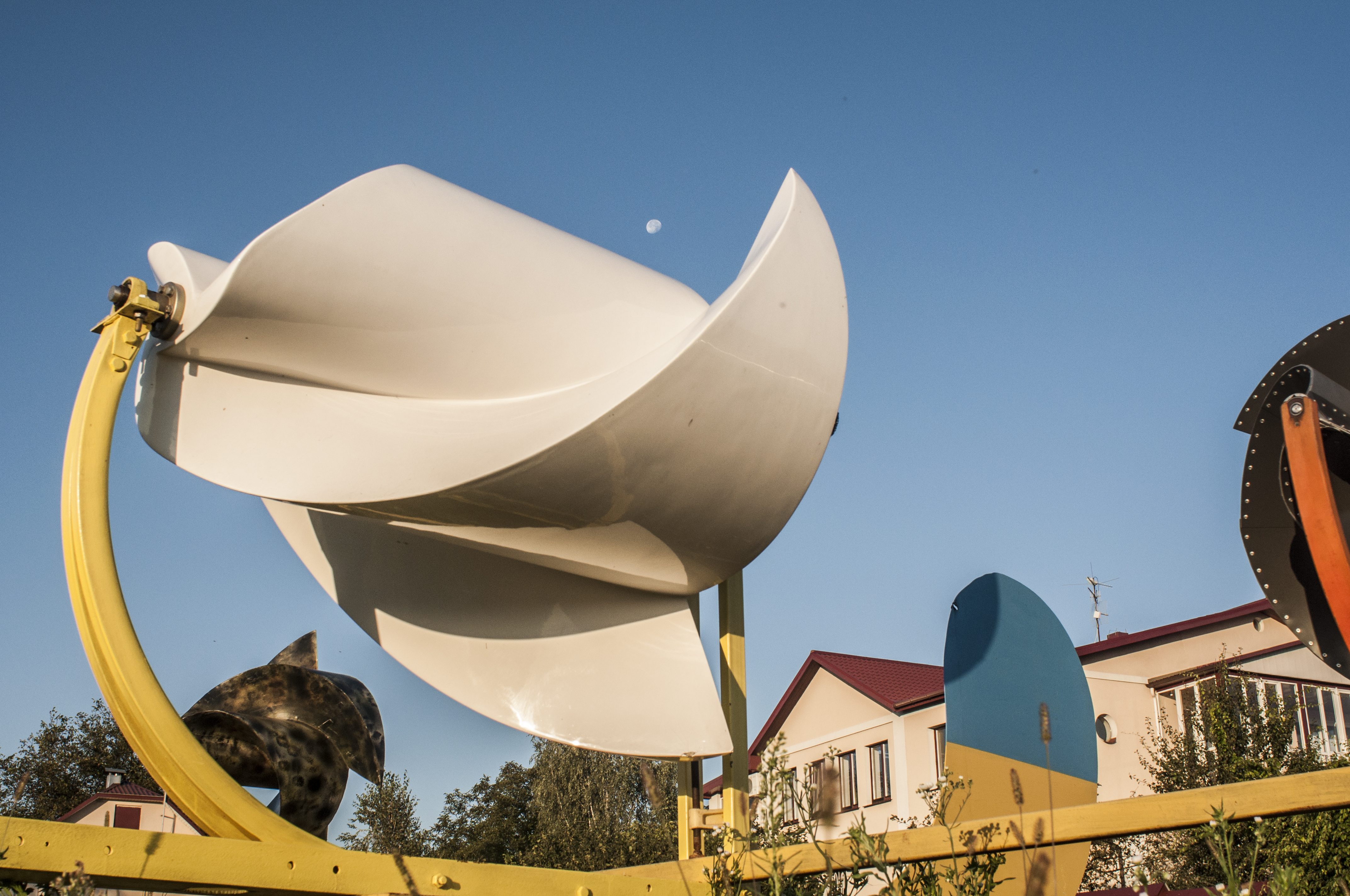 Onipko Rotor Wind Electric Turbine (ORWET), 1.28 meters in diameter coupled with two 60cm ORWETs.